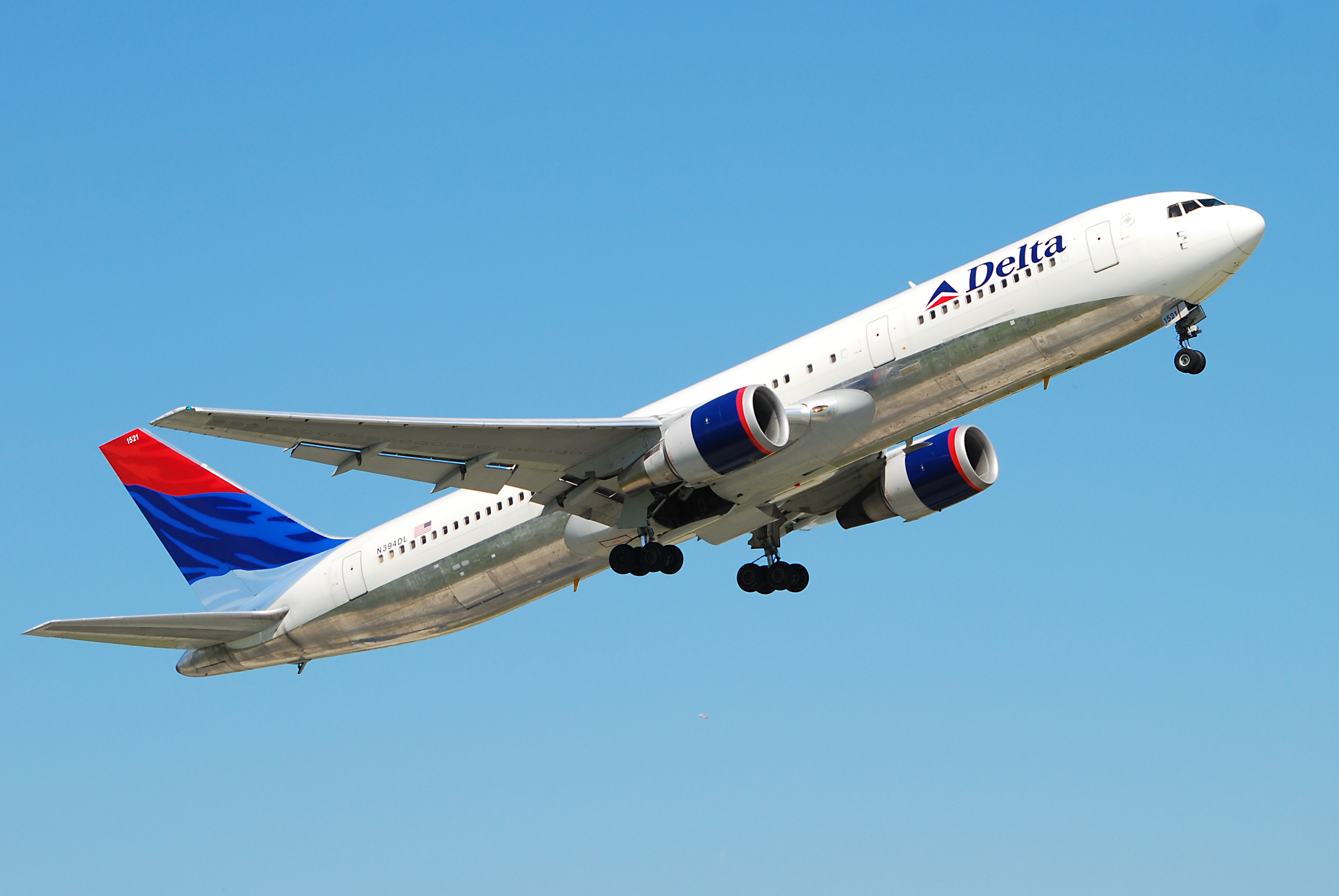 Delta Airlines (N394DL), Boeing 767 Spotting in June. Stuttgart Airport (STR / EDDS)